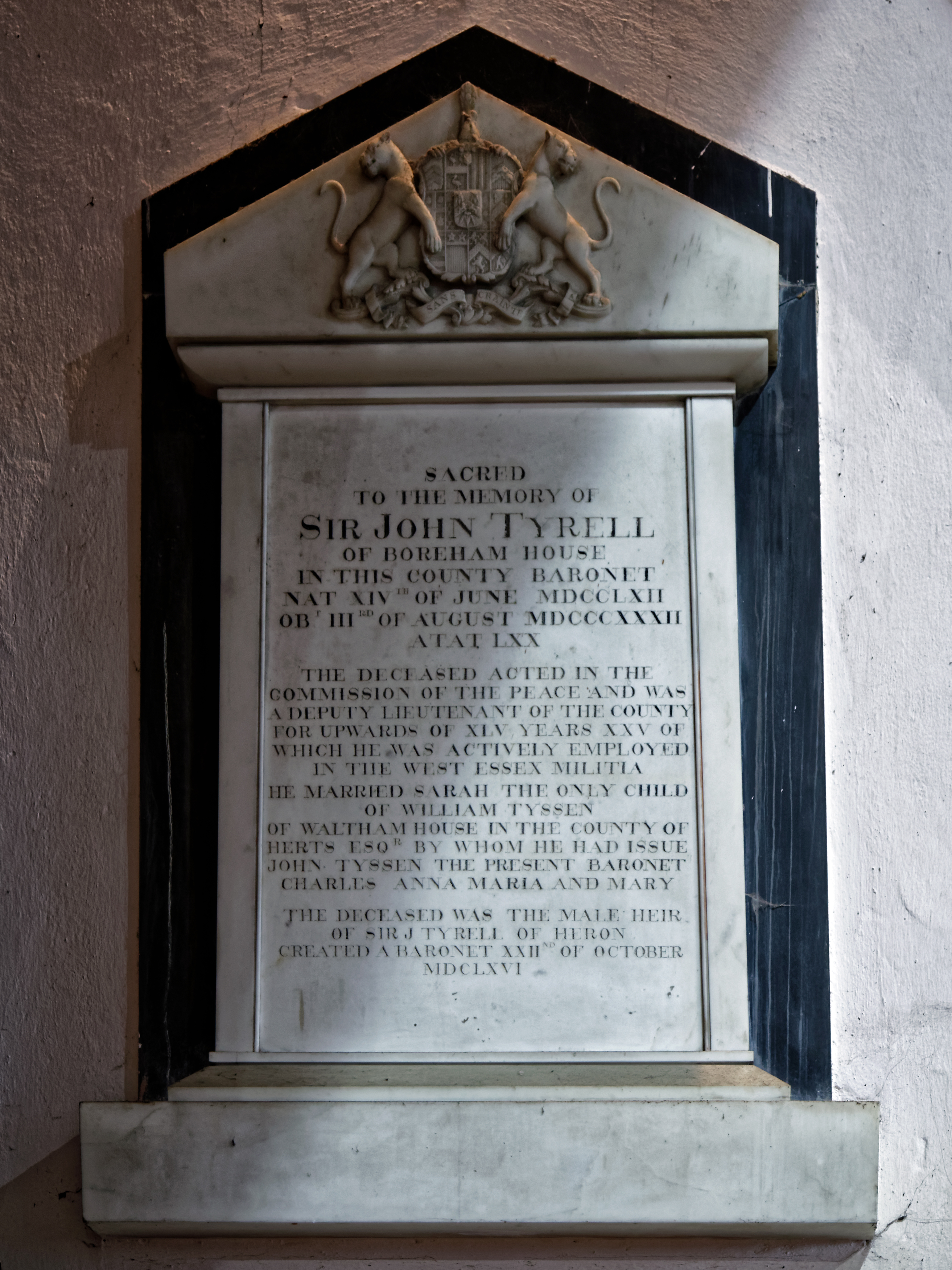 A wall marble memorial tablet to Sir John Tyrell bart. (1762-1832), Deputy Lieutenant of Essex, in the Grade I listed 11th- to 15th-century Parish Church of St Andrew's, in Boreham village, Essex, England.Camera: Canon EOS 6D with Canon EF 24-105mm F4L IS USM lens.Software: RAW file lens-corrected, optimized and converted with DxO OpticsPro 11 Elite, and further optimized with Adobe Photoshop CS2.